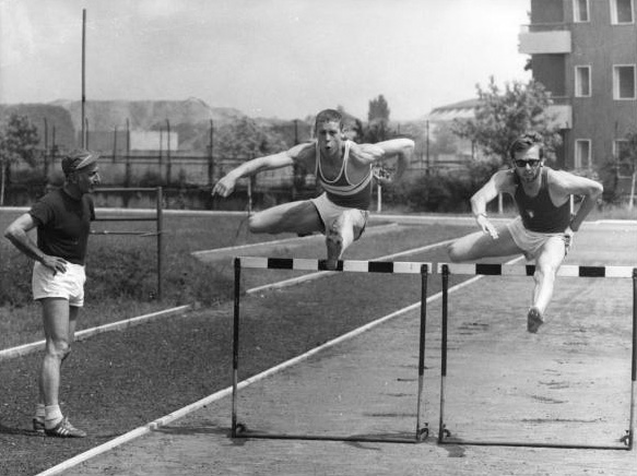 Sandro Calvesi, Guy Drut and Eddy Ottoz training in Brescia, Italy in 1969